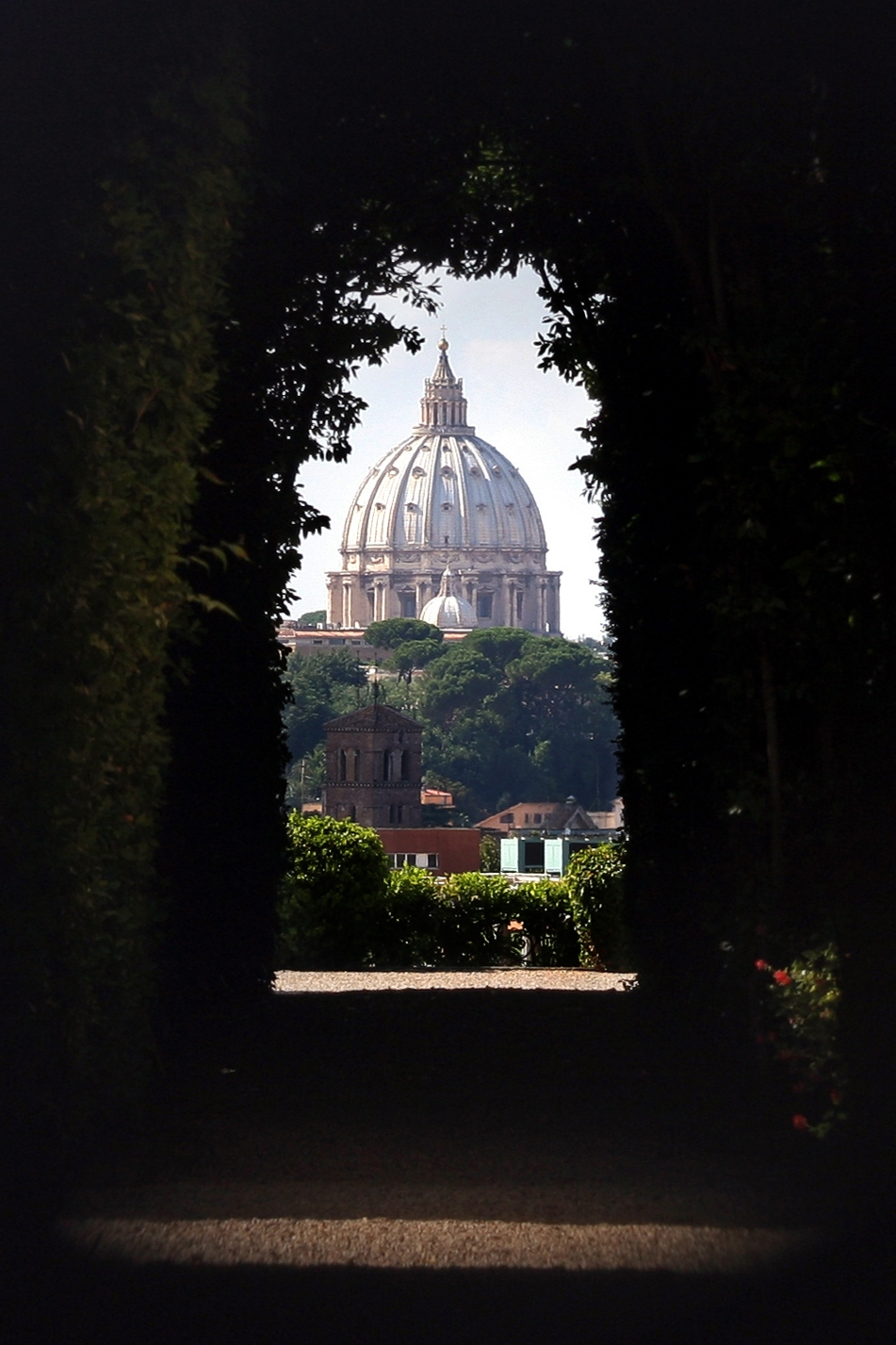 St. Peter's Basilica seen through a keyhole at the Villa Malta